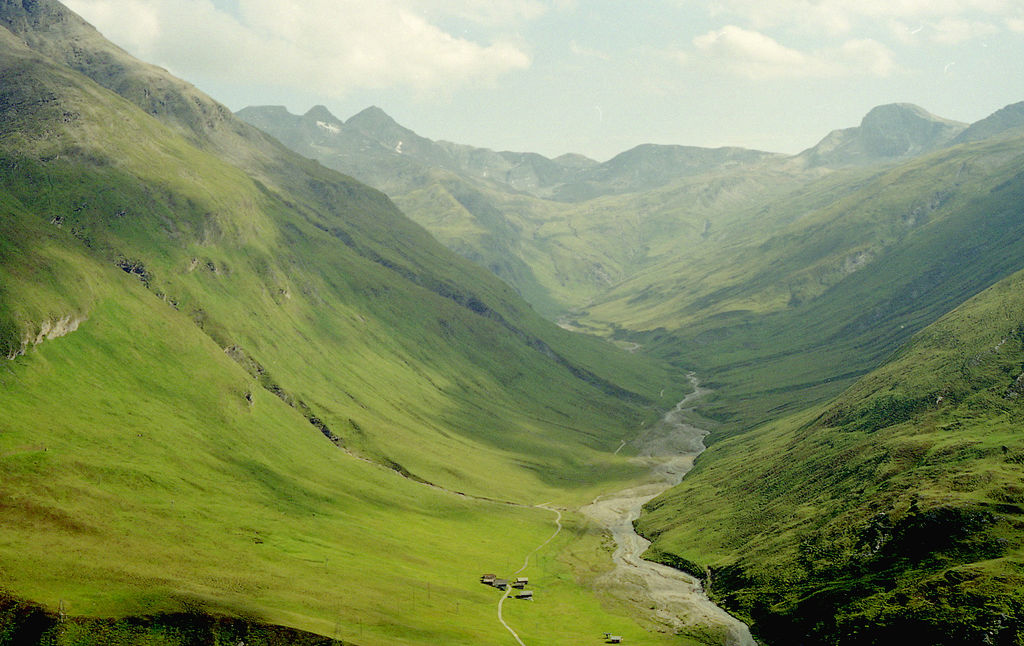 Avers Valley, Grisons, Switzerland.